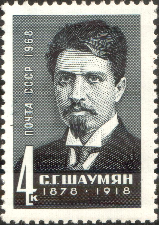 USSR stamp: One of 26 Baku Commissars Stepan Shahumyan (1878–1918). Series: Honouring Outstanding Workers for the Communist Party and the Soviet State